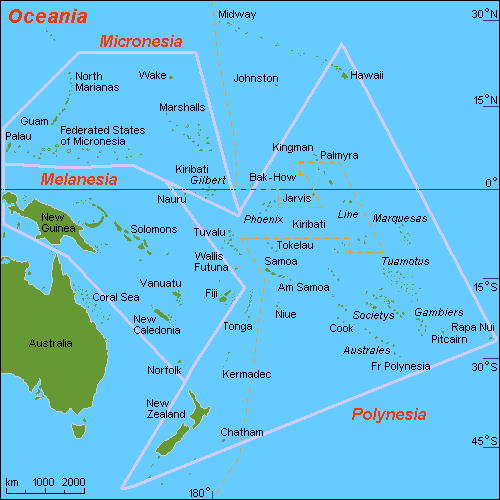 Map (rough) regions of Oceania, own work composed from various mapreferences